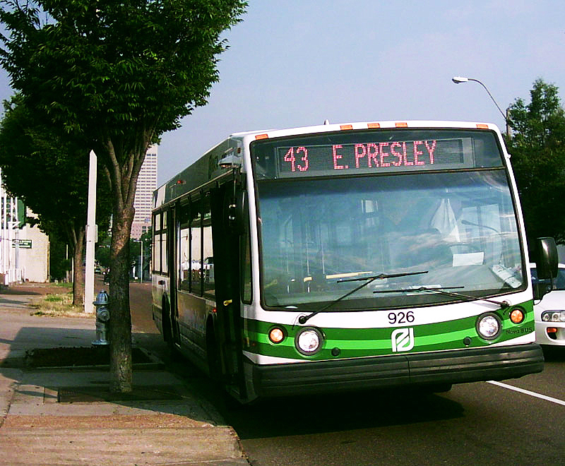 Memphis Area Transit Authority bus. Route 43 Elvis Presley. In Memphis, Tennessee, USA""